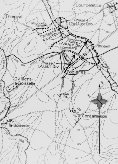 A map of Pozieres and Mouquet Farm, Somme, showing the four main phases in the Australian attack, July - September, 1916.